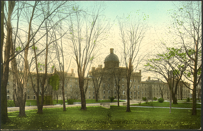 John Howard's Asylum on Queen St. W. across from Ossington, Toronto